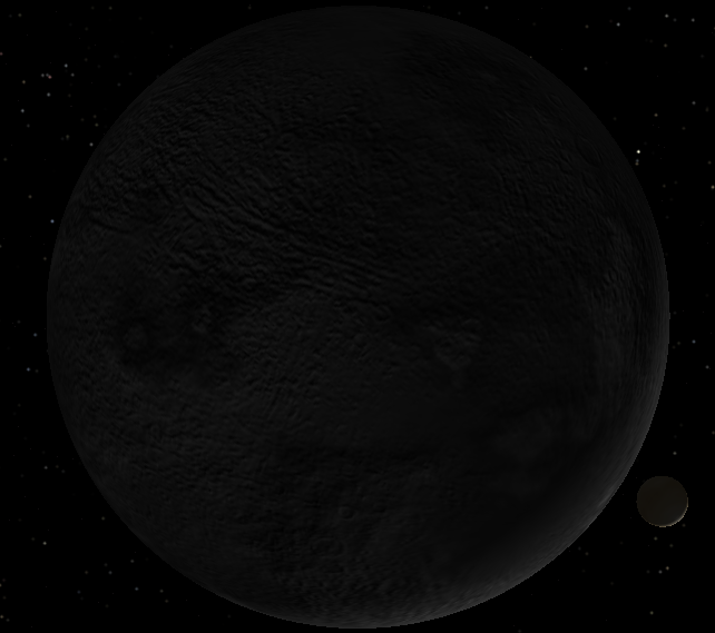 An artist's impression of Neith, hypothetical moon of Venus.